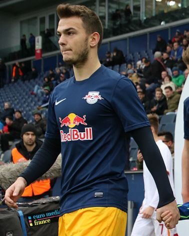 defender FC Liefering